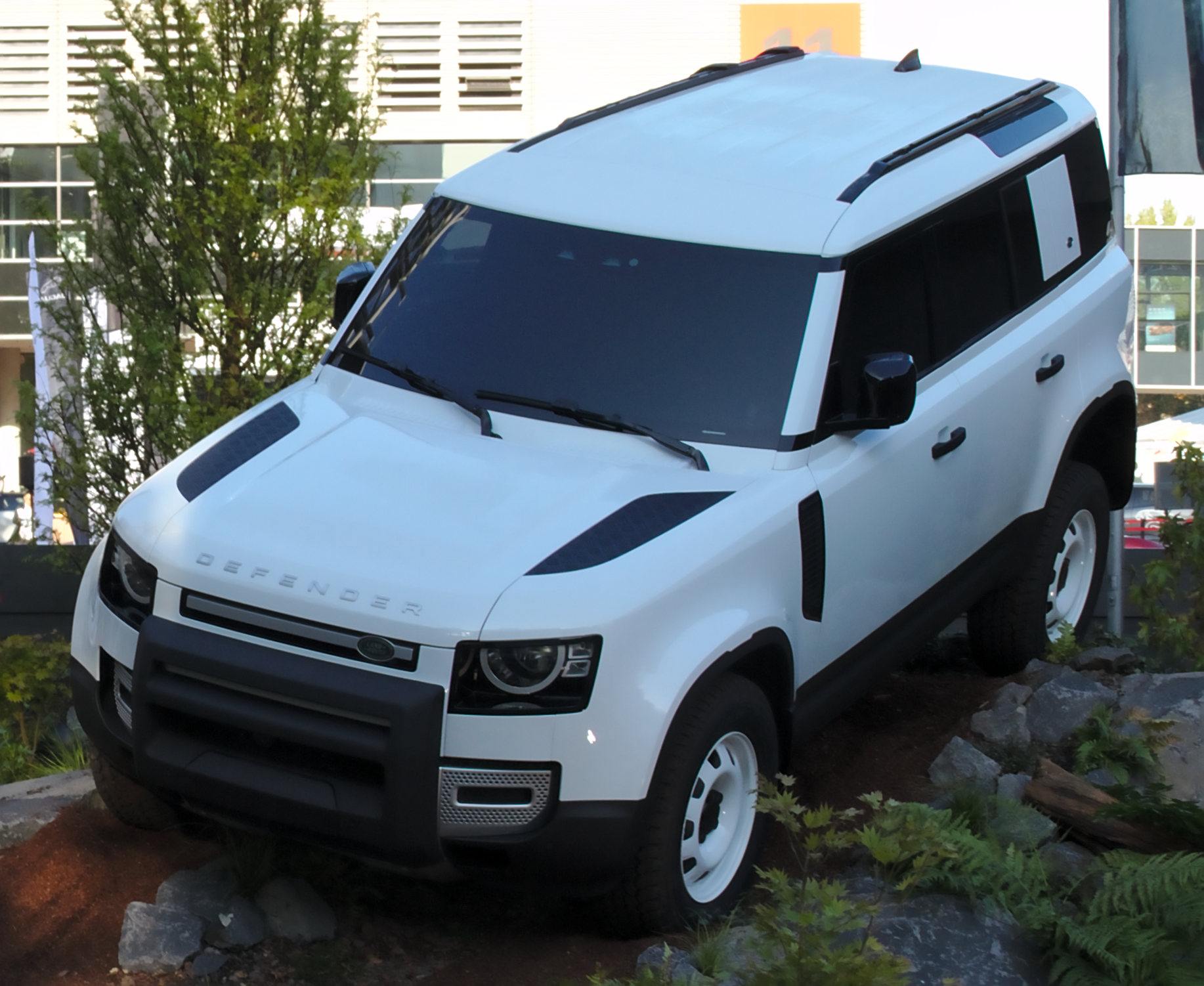 Land_Rover_Defender_(L663) at IAA 2019